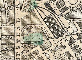 Cropped from "an extremely attractive c. 1890 traveler's pocket map of Victorian London, England." Published by George Washington Bacon of 127 Strand, London.